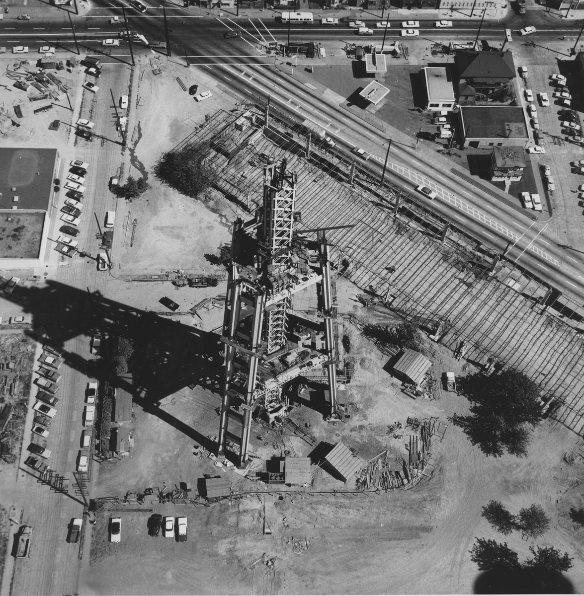 Aerial photo of Space Needle under construction, 1961, in preparation for the Century 11 Exposition (1962 Seattle World's Fair). Item 167461, Engineering Department Photographic Negatives (Record Series 2613-07), Seattle Municipal Archives.